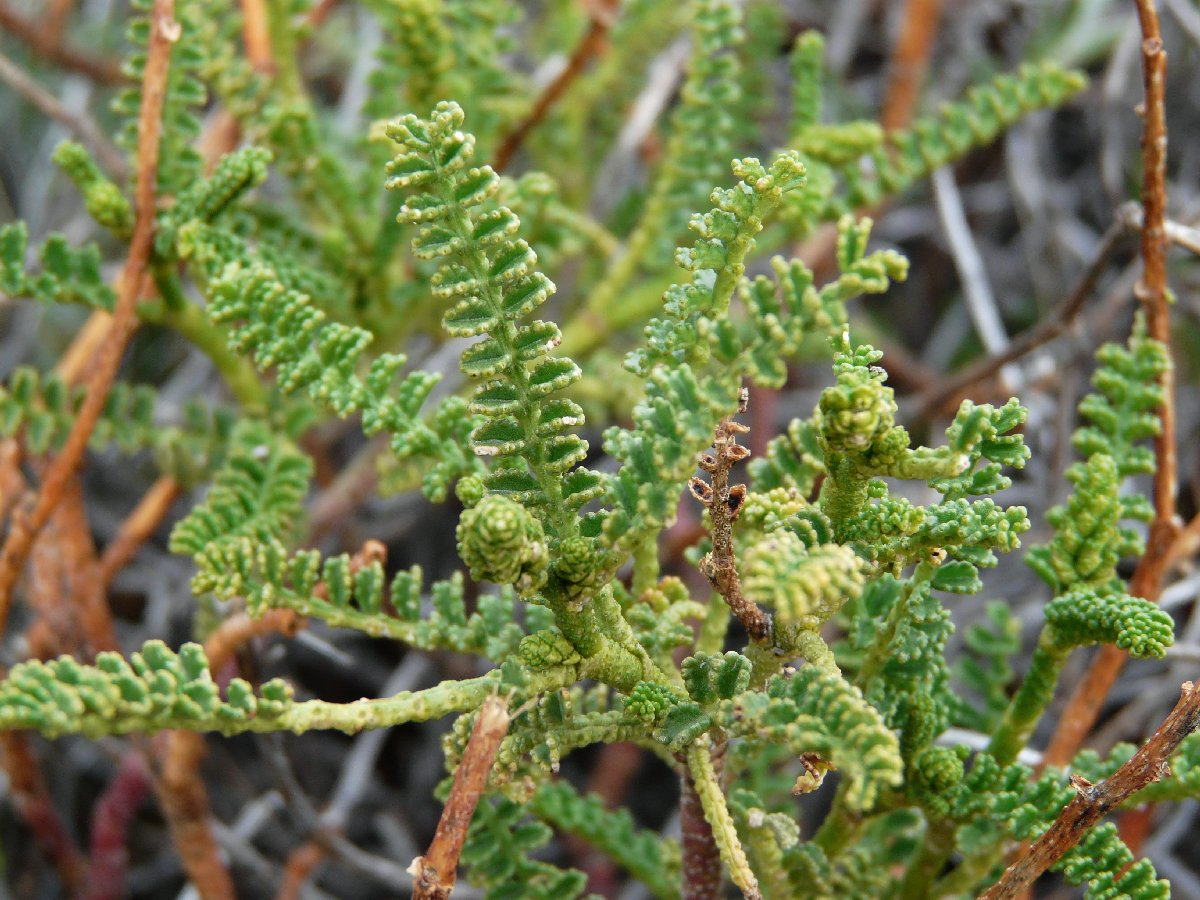 Paramela. Picture taken in Torres del Paine National Park, Chile